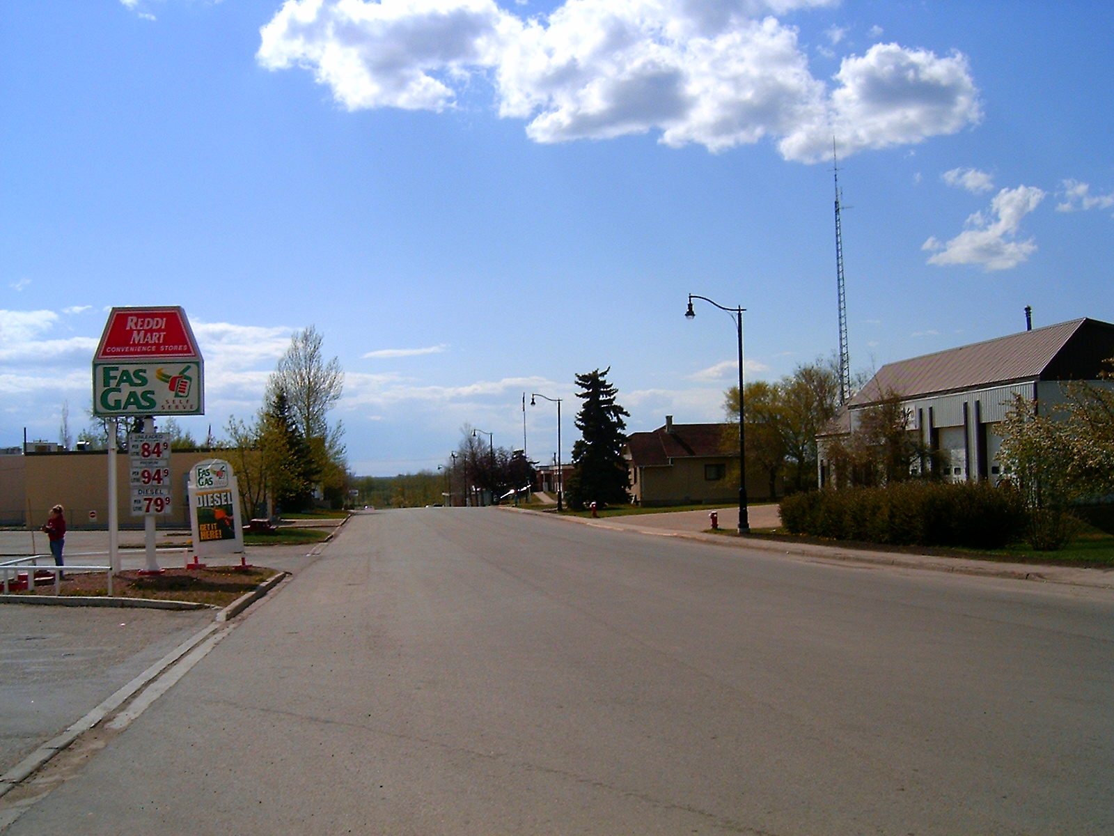 Looking west along 20 Avenue toward 21 Street in Bowden, Alberta, Canada.